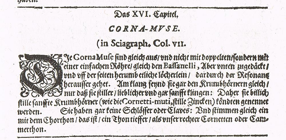 Description of the Cornamuse, a renaissance instrument, by Michael Praetorius. Begins: "Die CornaMuse sind gleich aus/und nicht mit doppelten/sondern mit einer einfachen Röhre/gleich den Bassanelli" (The cornamuse are similar to/and do not have a double, but rather a single tube (bore)/like the bassanelli.)